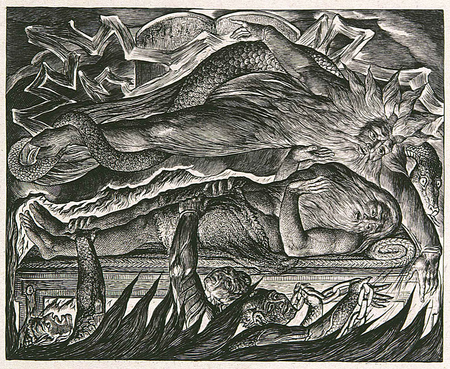 Blake Job Evil Dreams Detail bb421 1 13-12 ps 300